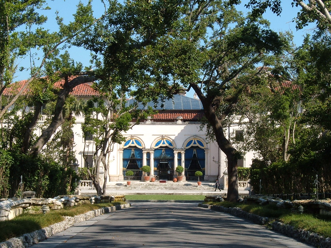 Villa Vizcaya in Coconut Grove, FL.